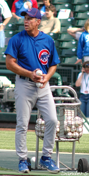 Chicago Cubs coach Alan Trammell throws batting practice at Safeco Field in Seattle between the Cubs and the Seattle Mariners, 2010.